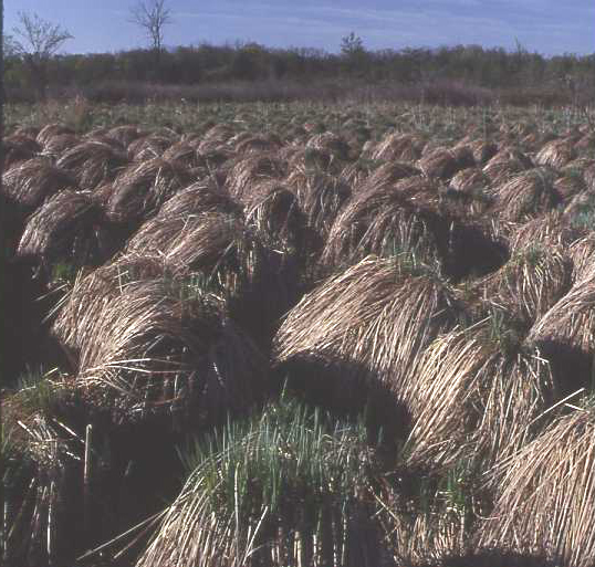 Lakeville Swamp Nature Sanctuary — in Oakland County, southeastern Michigan.